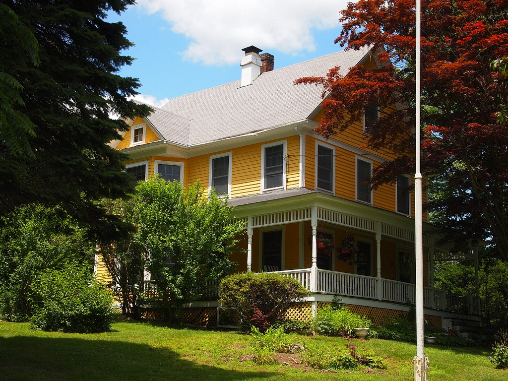 Connecticut - New London County - Waterford NRHP #02000337 NRIS 2011 Jun 30; view NW edit: resize Built in 1900 (American Queen Anne style). Private residence.